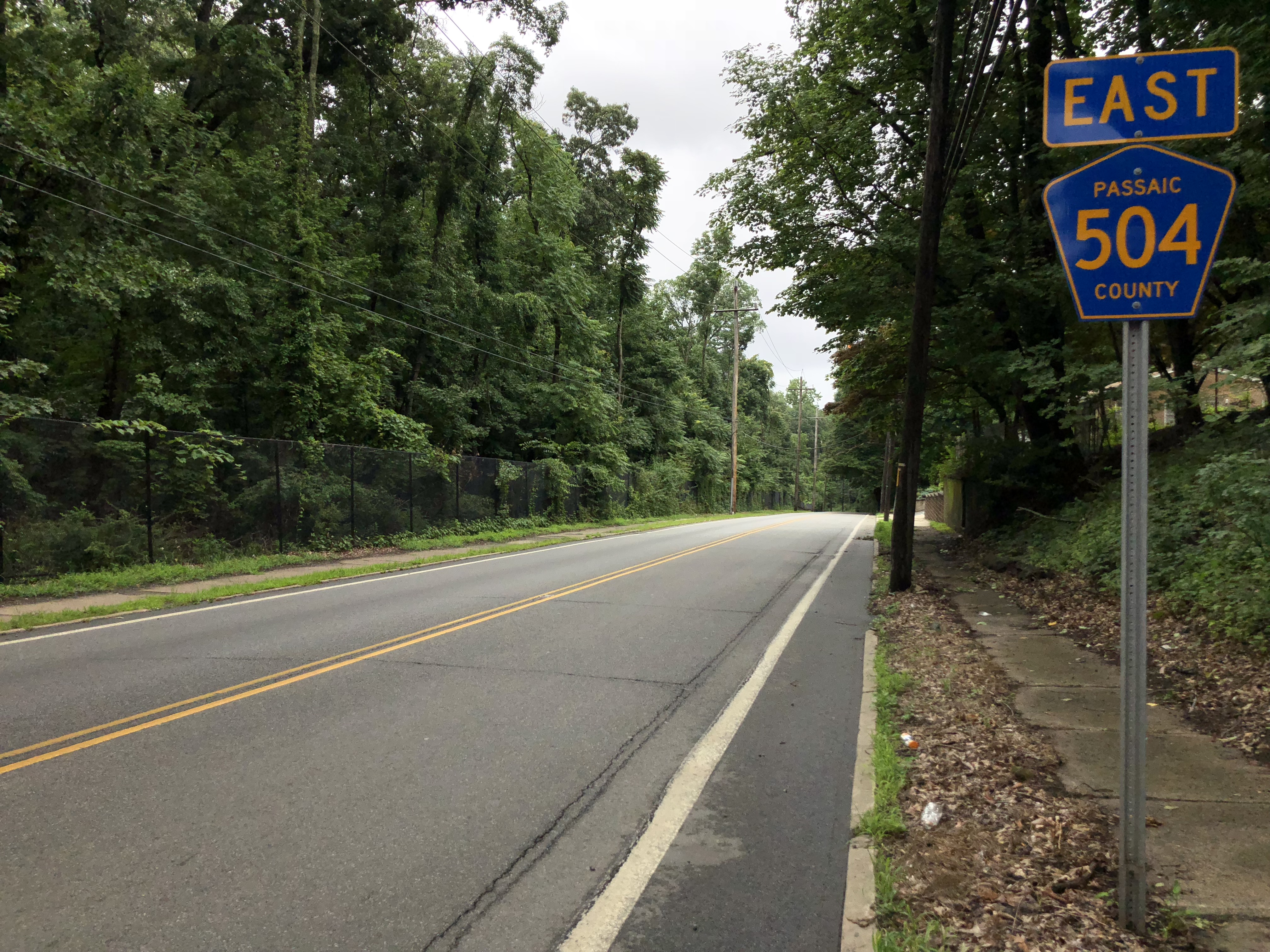 View east along Passaic County Route 504 (Pompton Road) just east of Passaic County Route 676 (Alisa Avenue) in Haledon, Passaic County, New Jersey